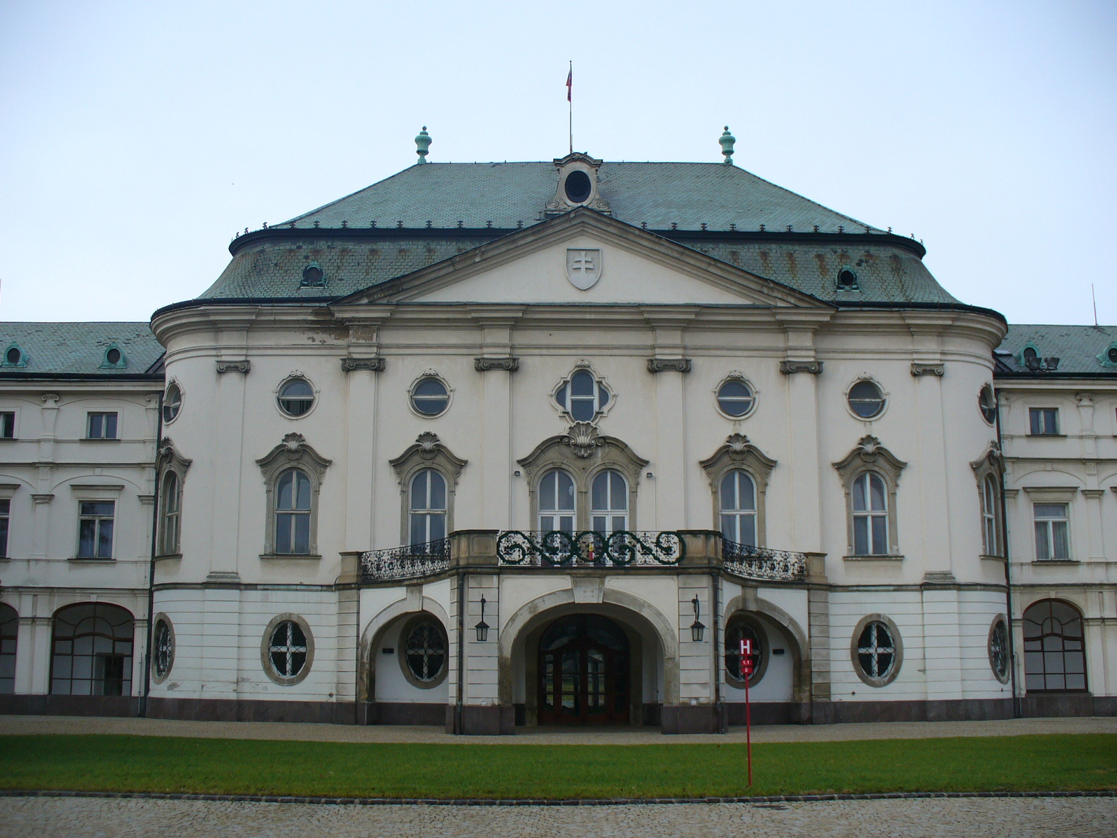 Letný arcibiskupský palác - Bratislava